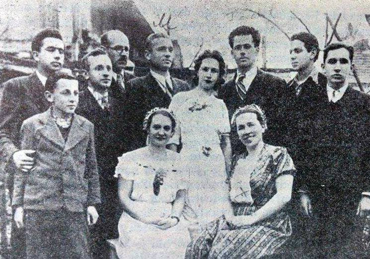 Wedding photograph of the Yugoslav national hero Fadil Šerić (third from the right) taken on 12 April 1940. His sister-in-law Vahida Maglajlić, also Yugoslav national hero, is seated on the right.